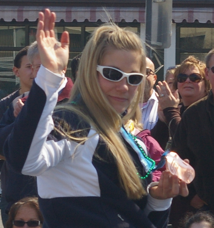 2010 Winter Olympian Erin Pac, wearing the bronze medal she won at the Games, waves to the crowd in the annual St. Patrick’s Day Parade in Milford, Connecticut. Cropped from a larger photo.